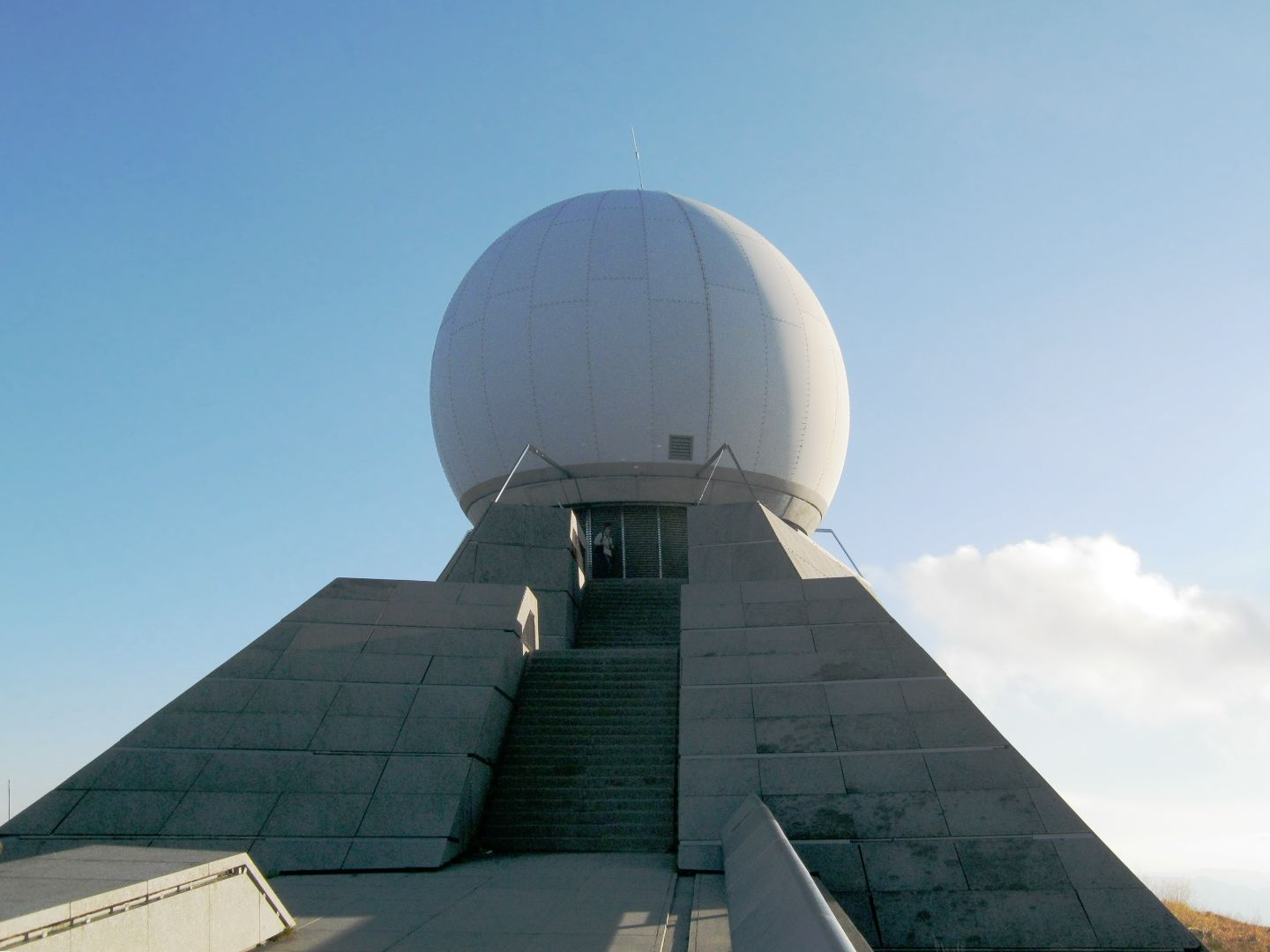 The radar station (stairs)